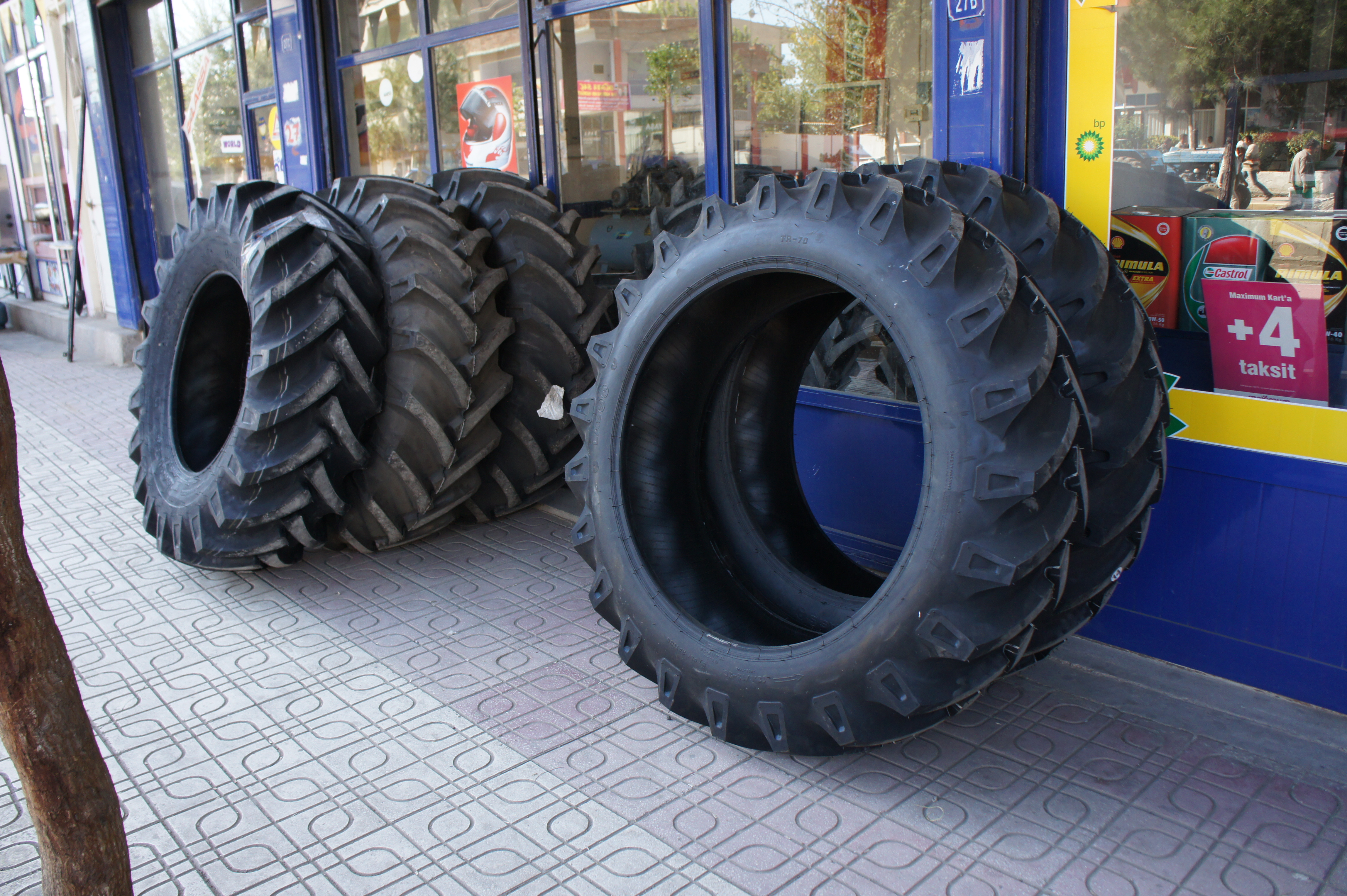 Pêçkeyên traktoran li Bismil, Kurdistan / Tractor tyre in Bismil, Kurdistan, Turkey.